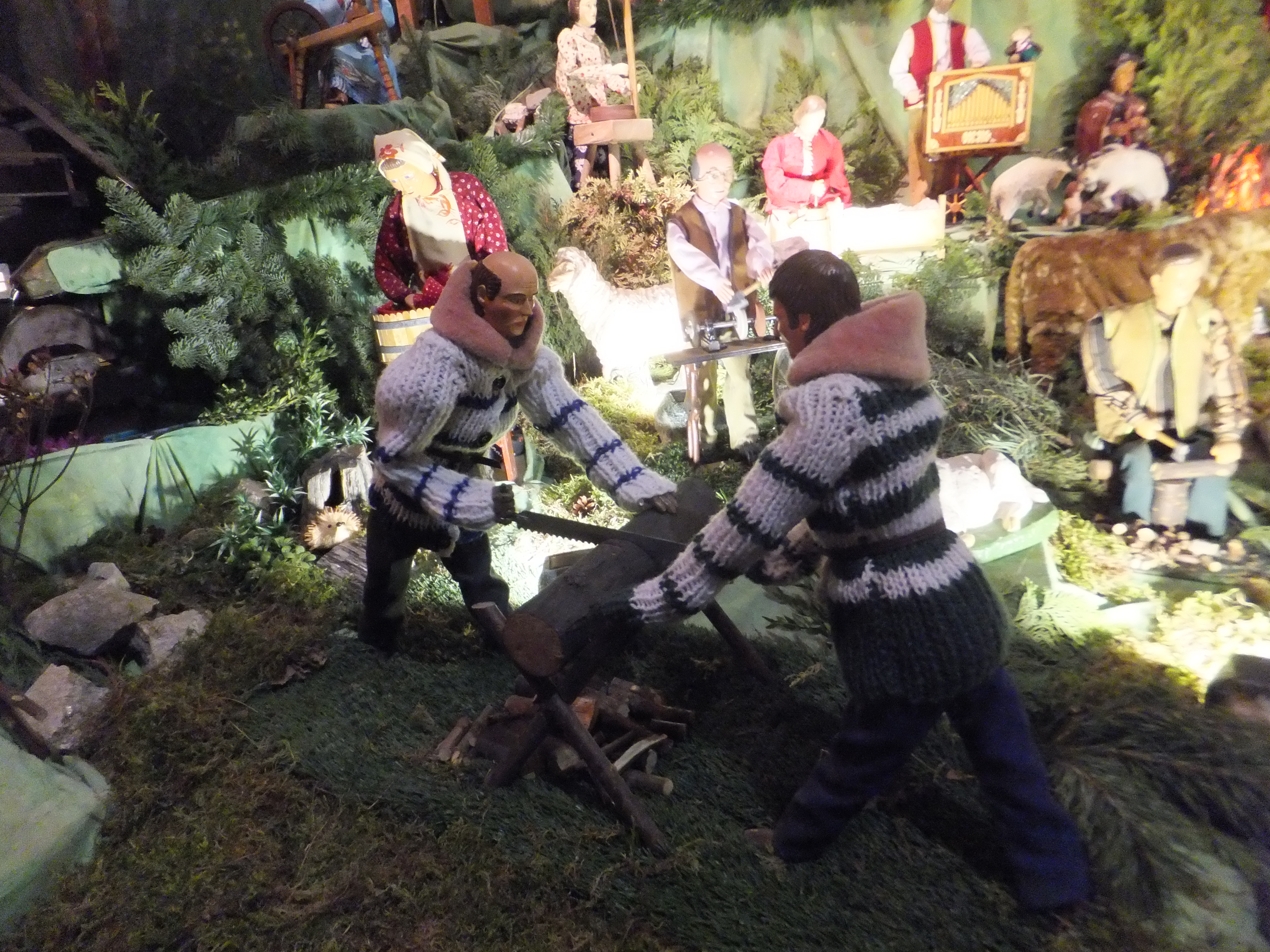 Moving crib in Saint Bartholomew church in Bieruń (Poland). Moving crib is built every year since 1955. It consists of more than 100 figures (most of the figures moving).